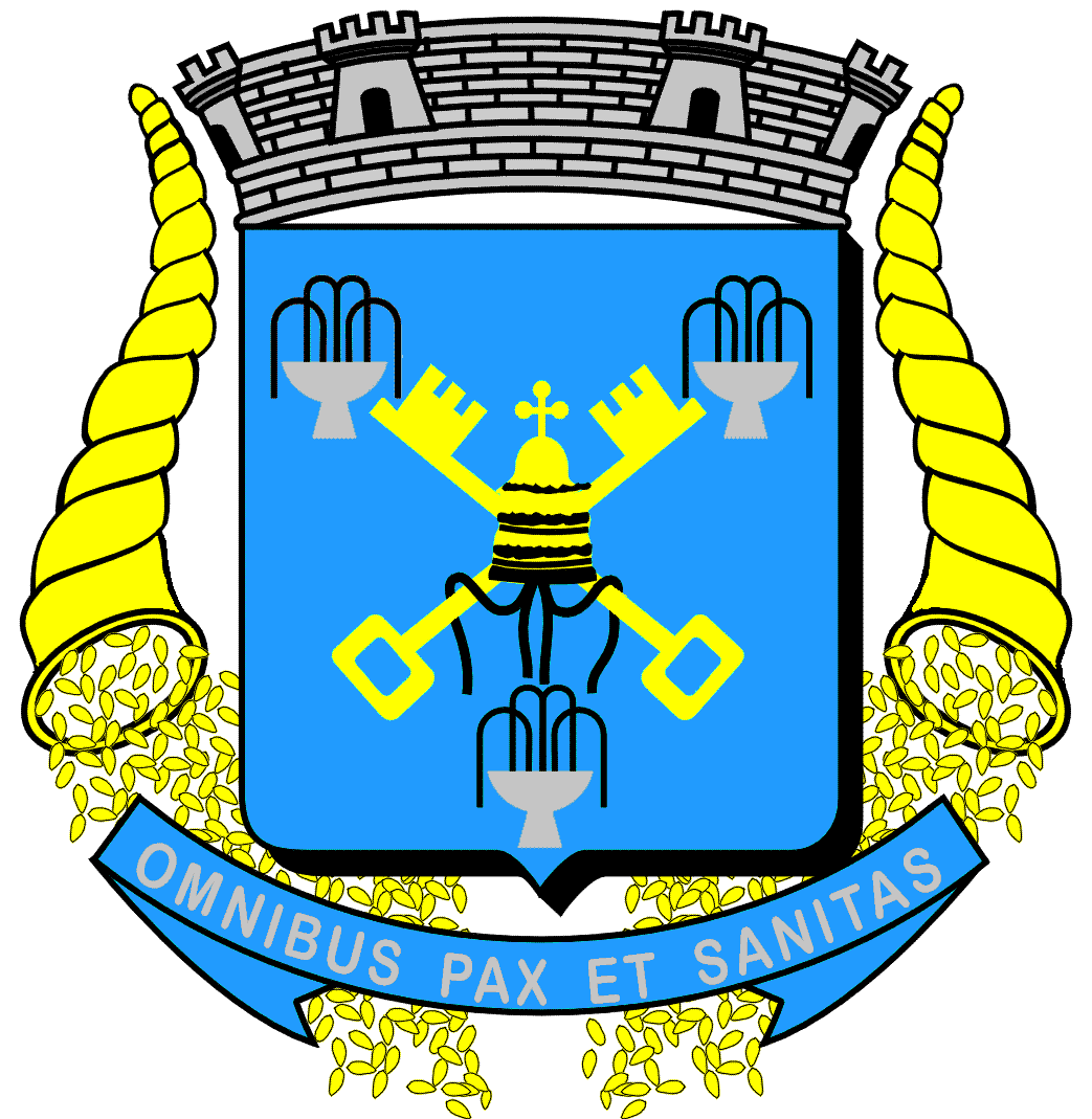 Coat of arms of the municipality of Águas de São Pedro, São Paulo state, Brazil.